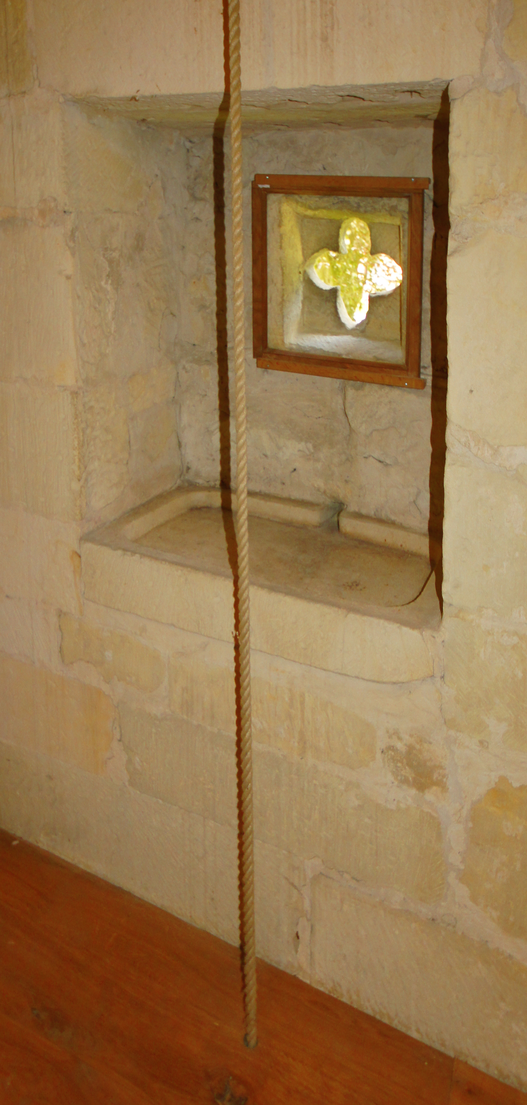 A water mill in Stevern, Nottuln, district of Coesfeld, North Rhine-Westphalia, Germany.